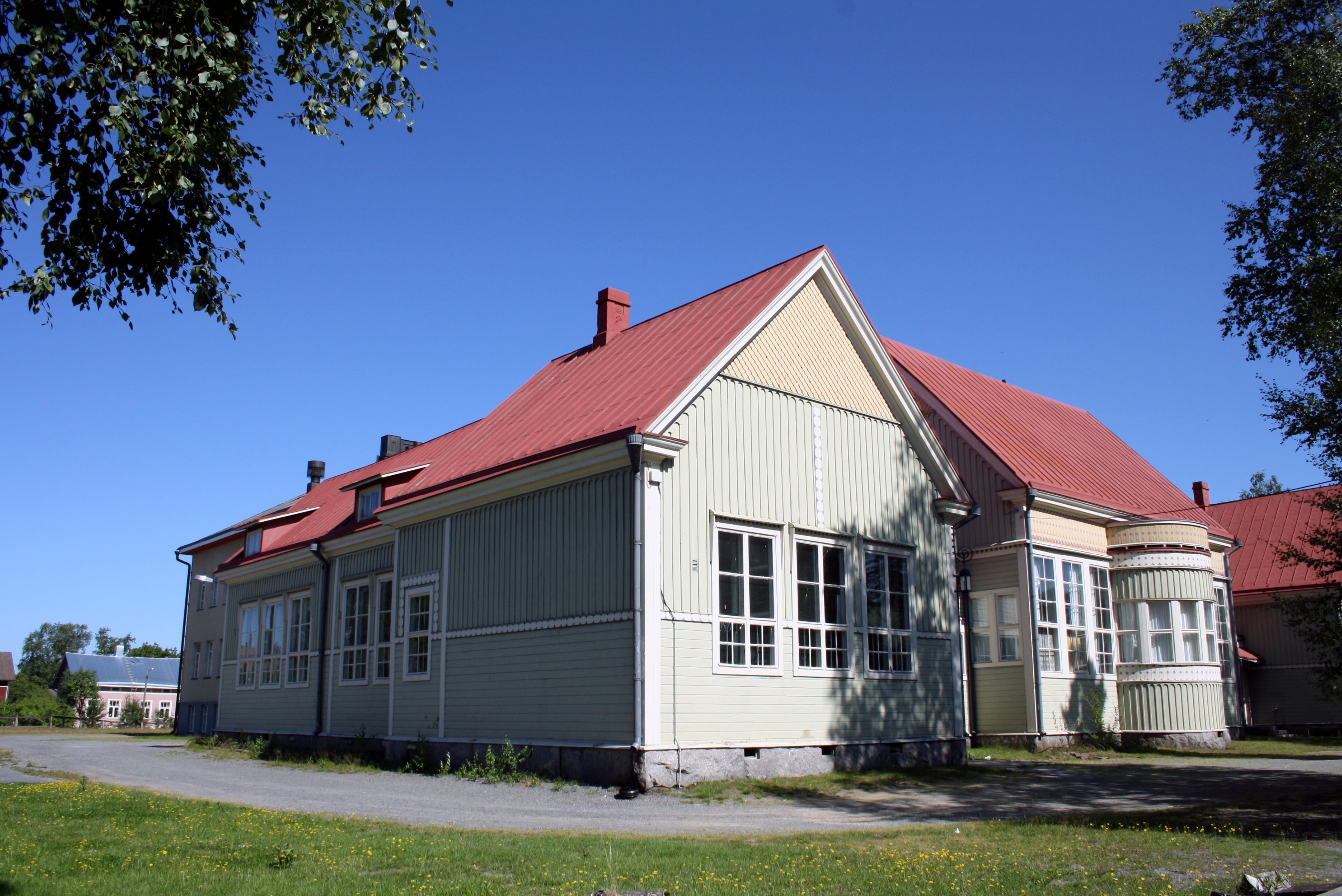 Renlund school in Kokkola, Finland